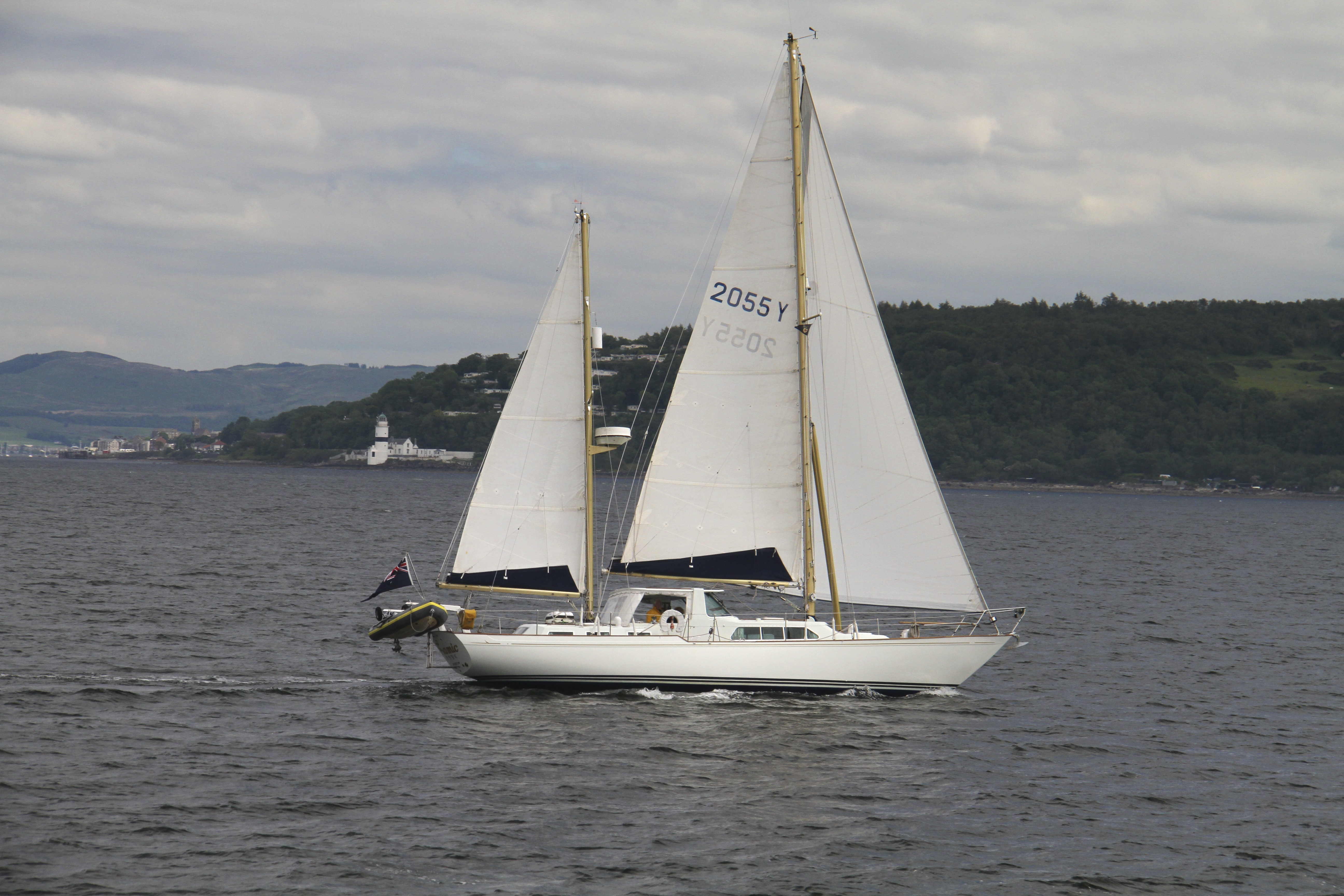 "Framic" Yacht and Toward Point Lighthouse